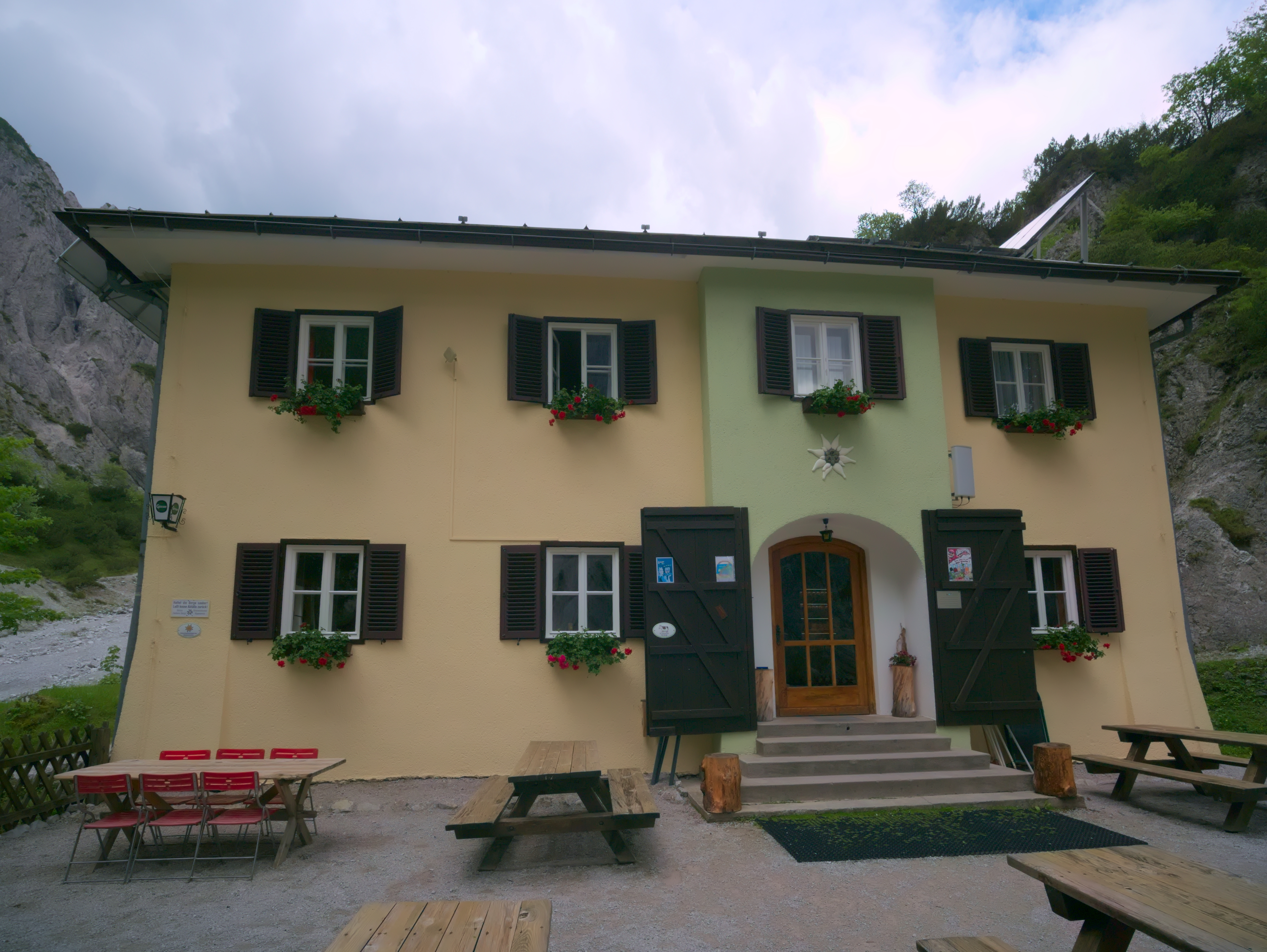 The front of Haindlkarhütte (owned by Österreichischer Alpenverein) in Nationalpark Gesäuse, Austria.